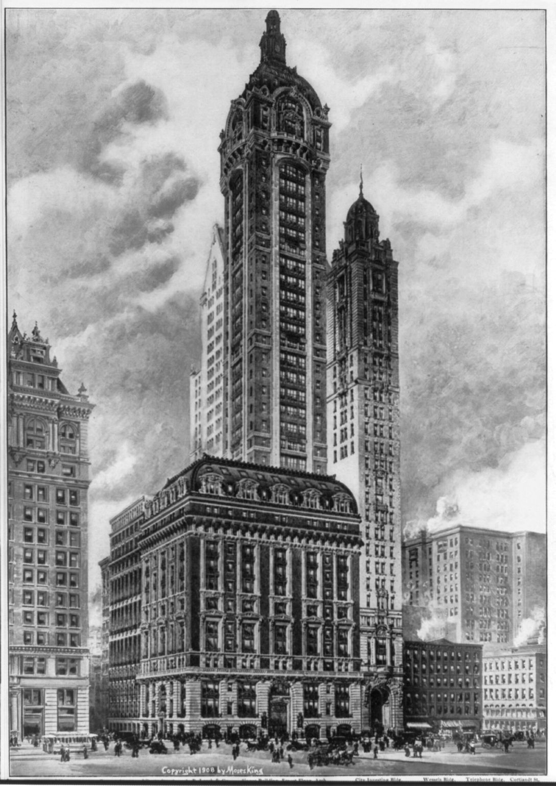 TITLE: Singer Building, N.W. corner of Broadway and Liberty St., New York City CALL NUMBER: LOT 5199 [item] [P&P] REPRODUCTION NUMBER: LC-USZ62-67472 (b&w film copy neg.) No known restrictions on publication. MEDIUM: 1 photomechanical print : halftone. CREATED/PUBLISHED: c1908. NOTES: Halftone repro. of drawing copyrighted by Moses King. Illus. in: King's Views of New York, [fouth page after index].